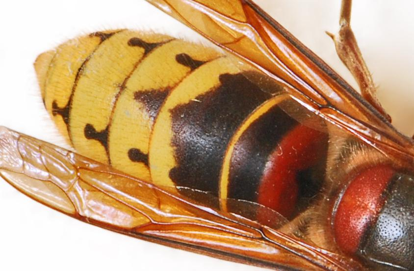 Vespa crabro, commonly known simply as the "hornet", is the largest European eusocial wasp. The specimen in the picture is a fully grown worker (female) – measuring 25 mm (about one inch) from head to abdomen. Another detail in the picture is the three ocelli between the two compound eyes.